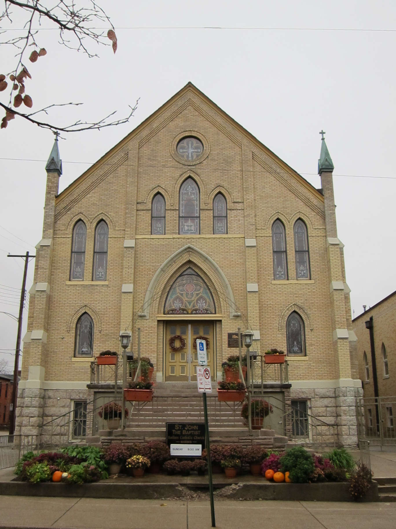 St. John the Baptist Italian Catholic Church, Columbus, Ohio; front of the building, exterior